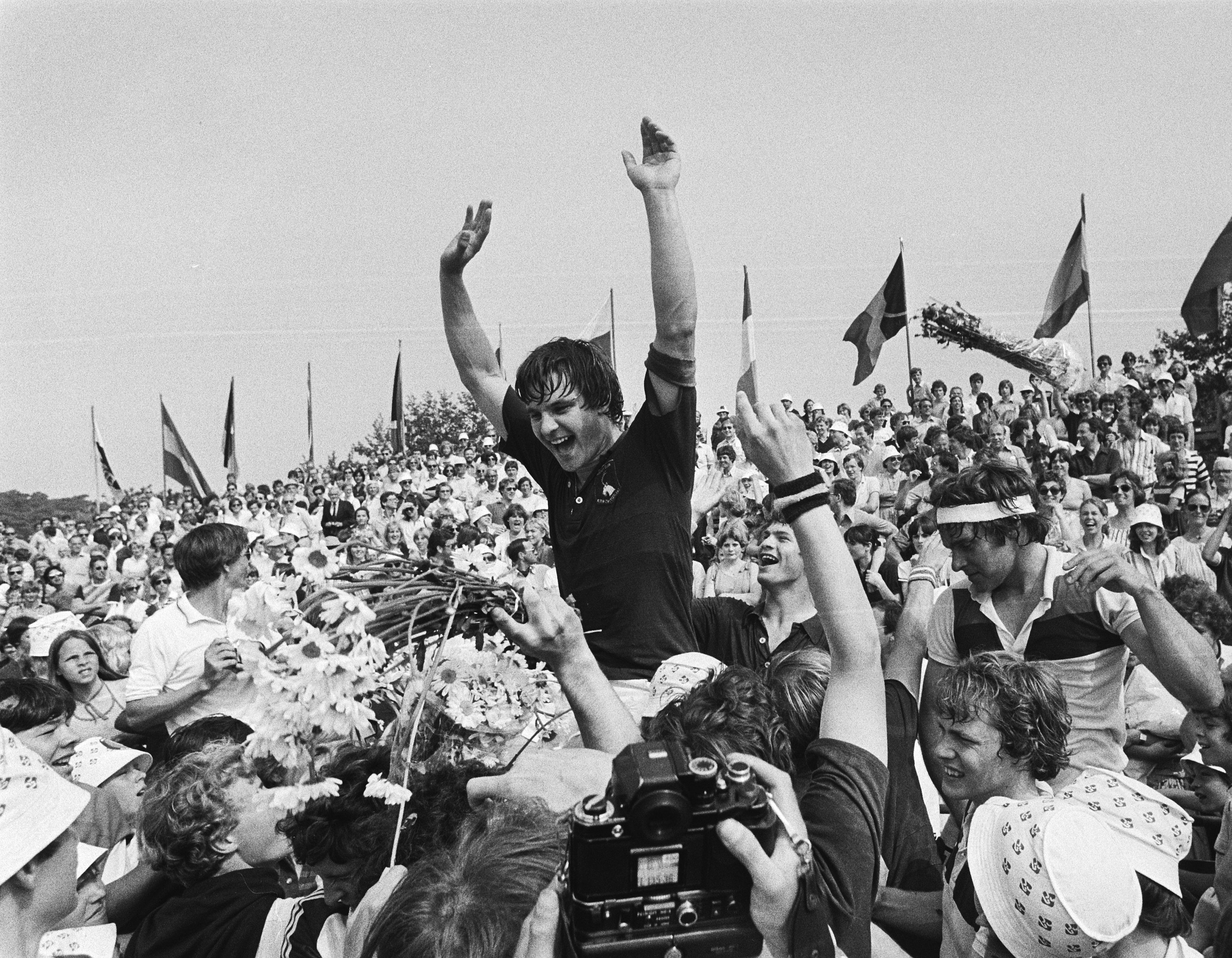 Ties Kruize after the European cup match Klein Zwitserland (HCKZ) against Polo Barcelona 2-1